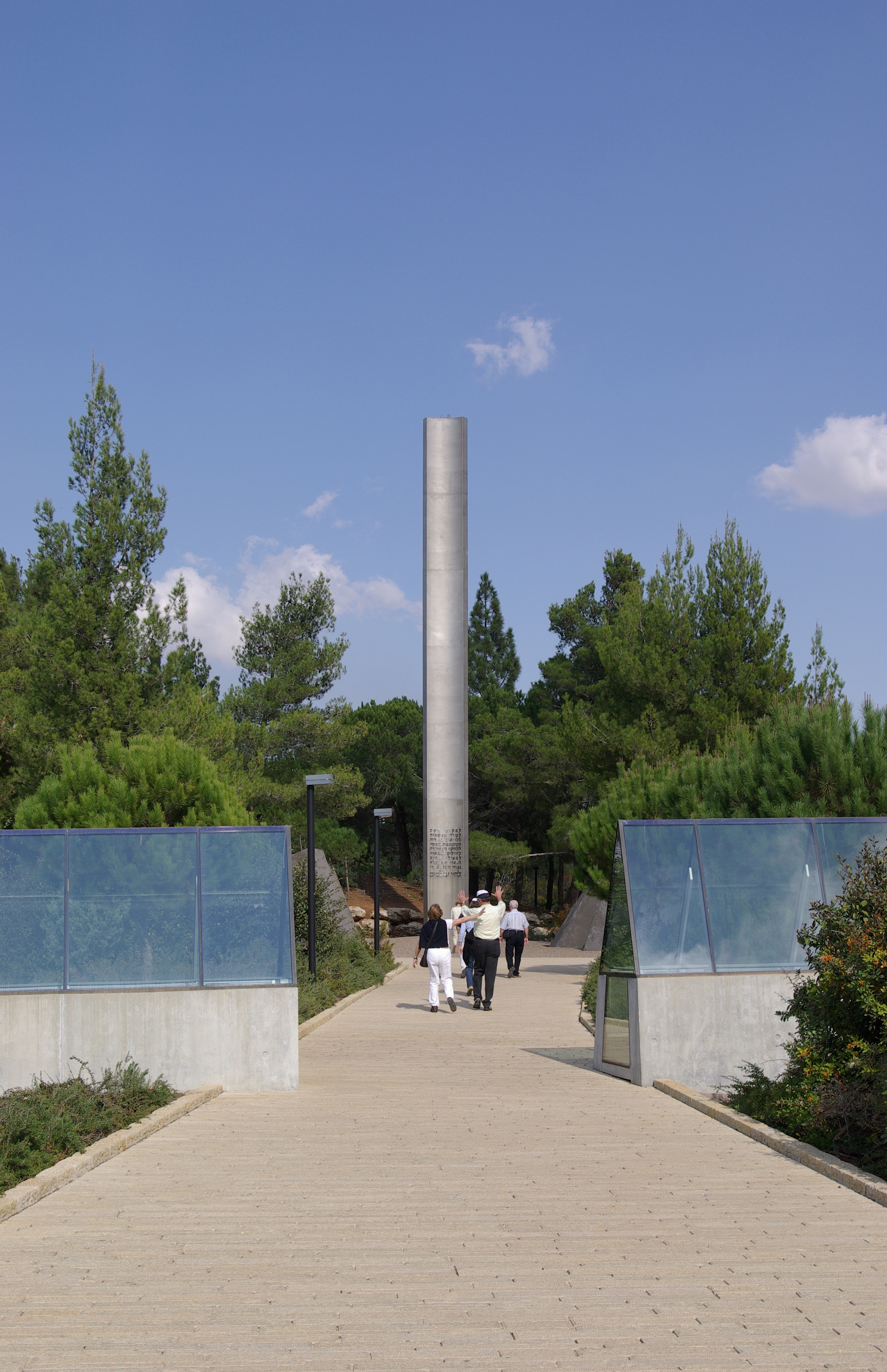 Jerusalem, Yad Vashem, Pillar of Heroism